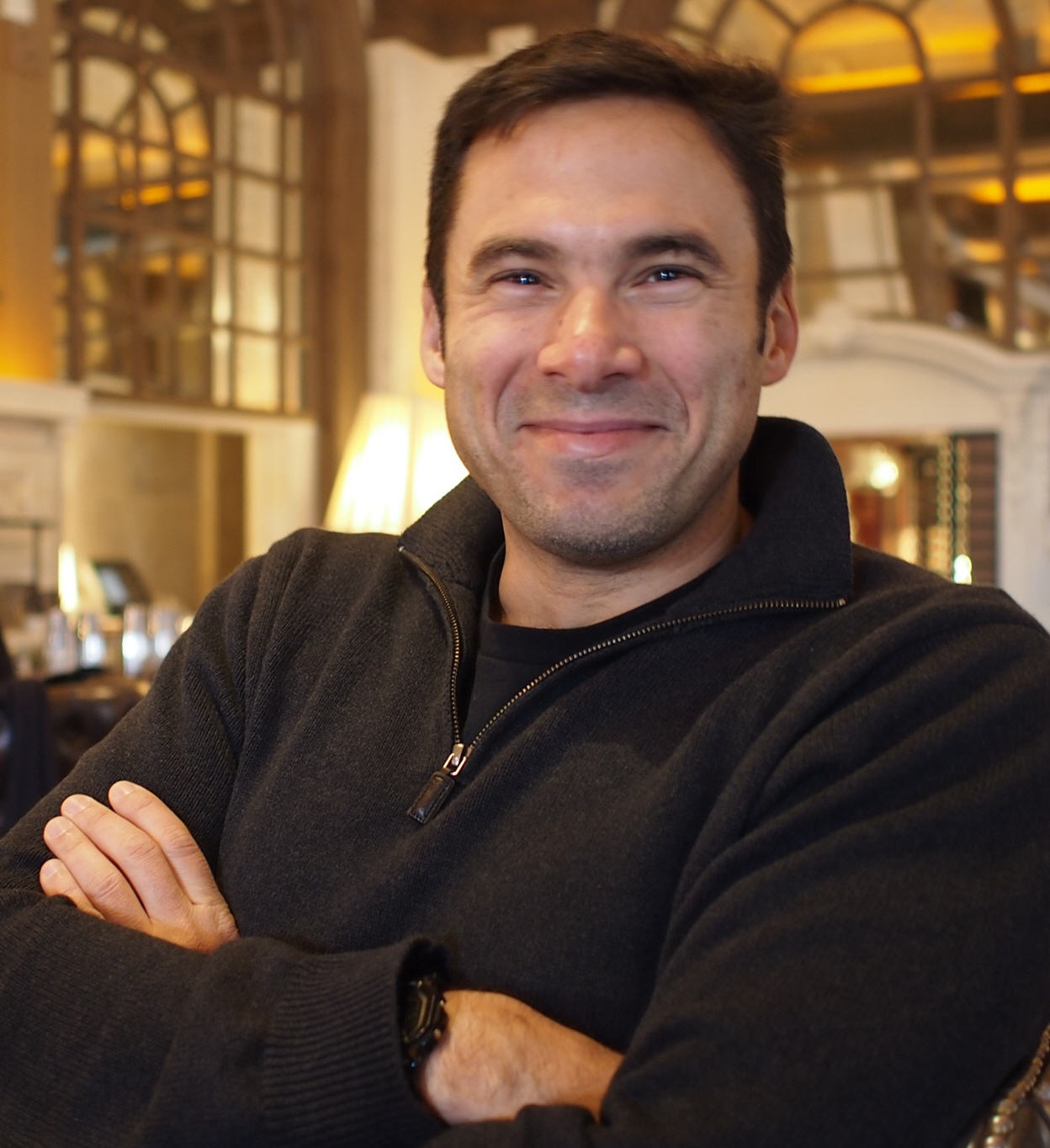 Cropped version of landscape-oriented "Photo of Antonio after lunch on future of software in the storage world." for portrait-oriented article thumbnail